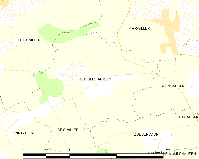 Map of French municipality